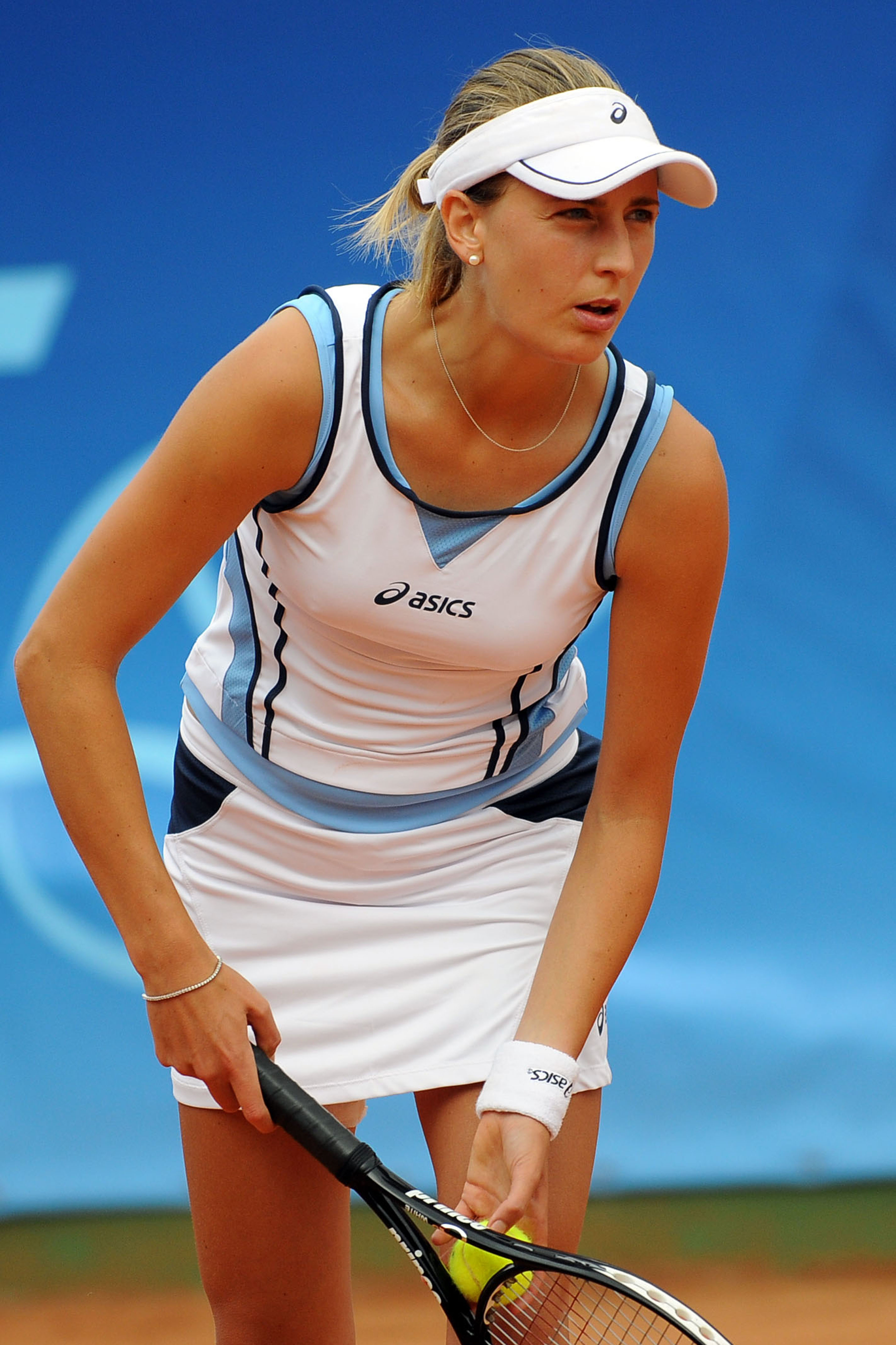 Mara Santangelo in Biella (Italy) ITF tennis event 2008